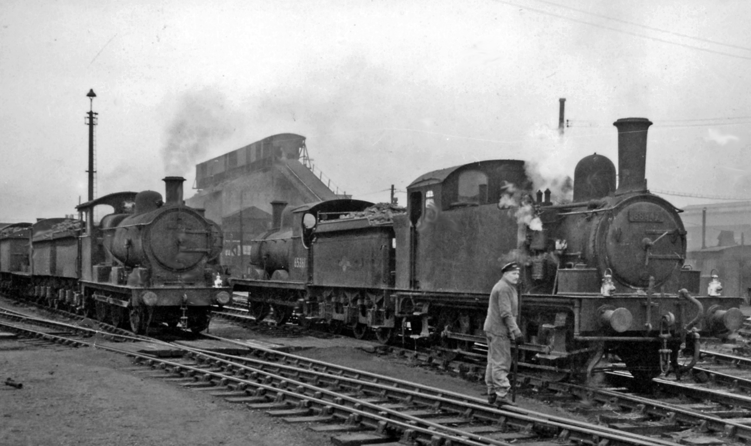 Engines in the Locomotive Yard at Stratford Depot. View southward, showing three of the innumerable locomotives which were lined up on many sidings at Stratford in the open air, seemingly haphazardly, in the extensive general area around the Sheds and New Works. Most of the engines of the 400 or so belonging to the Depot were ex-Great Eastern types: here we have Hill J68 0-6-0T No. 68642 of 1912 (beside it a man is looking suspiciously at me), then Holden J15 0-6-0 No. 65361 of 1885; on the left is Holden J17 0-6-0 No. 65507 of 1901 heading another string of similar locomotives. (See also TQ3884 : Typical N7 class 0-6-2T at its home, Stratford Locomotive Depot). (Stratford International Station now occupies the site).